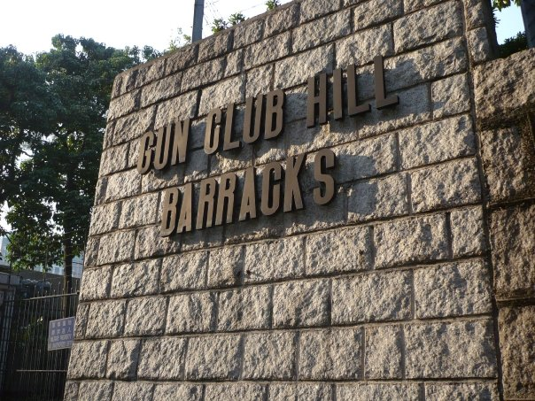 Gun Club Hill Barracks